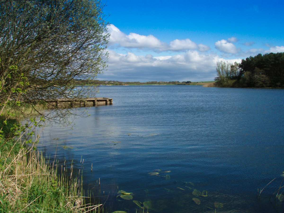 Rescobie Loch looking South East